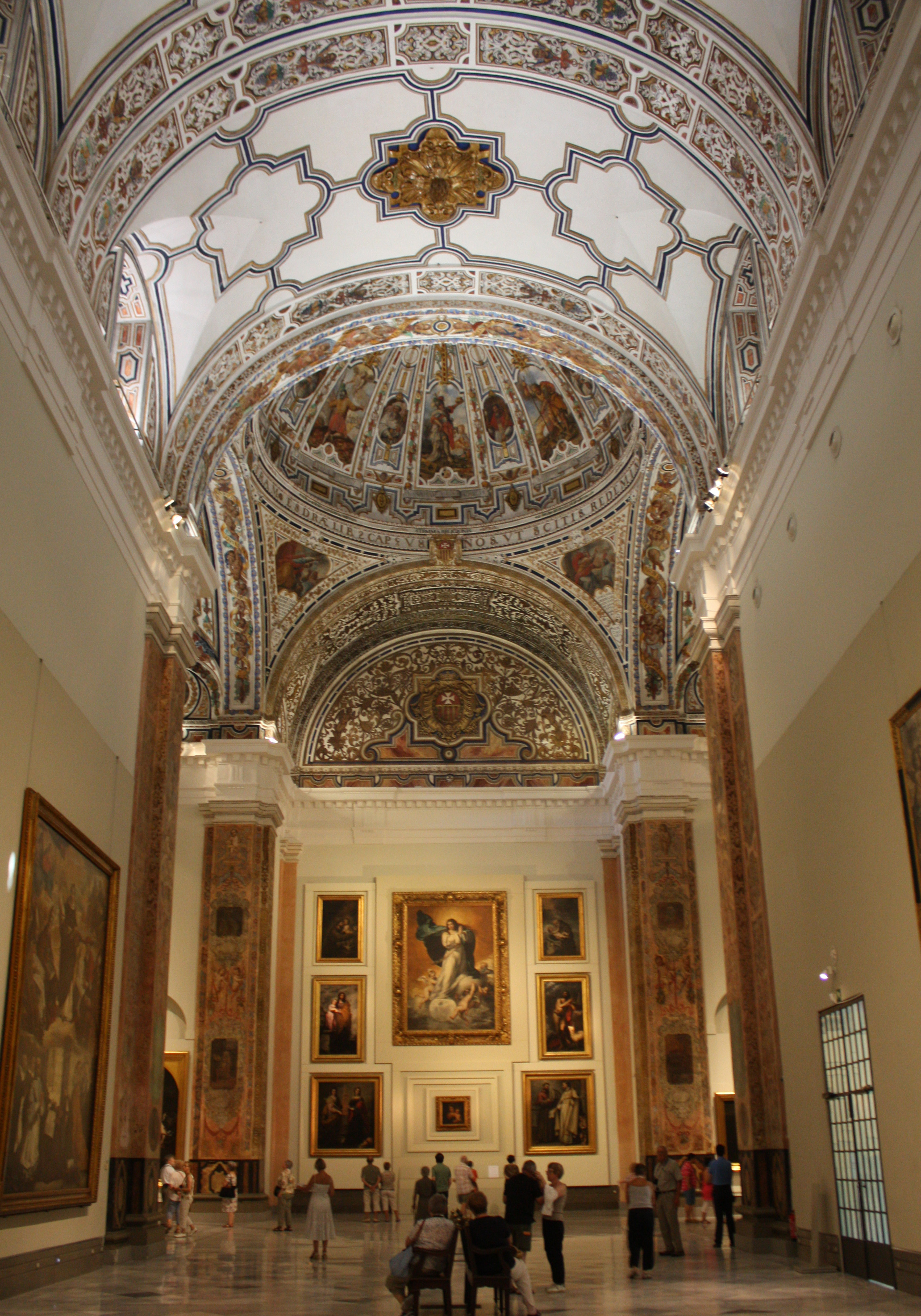 Nave of the ancient church of the former Convent of Mercy, which houses the Museum of Fine Arts.